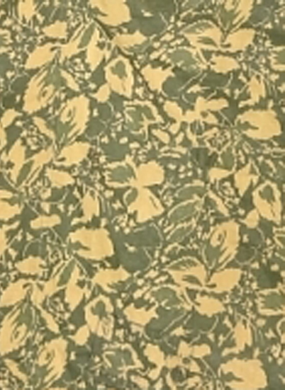 First Soviet leaf pattern (leaf I, 1941), spring variation